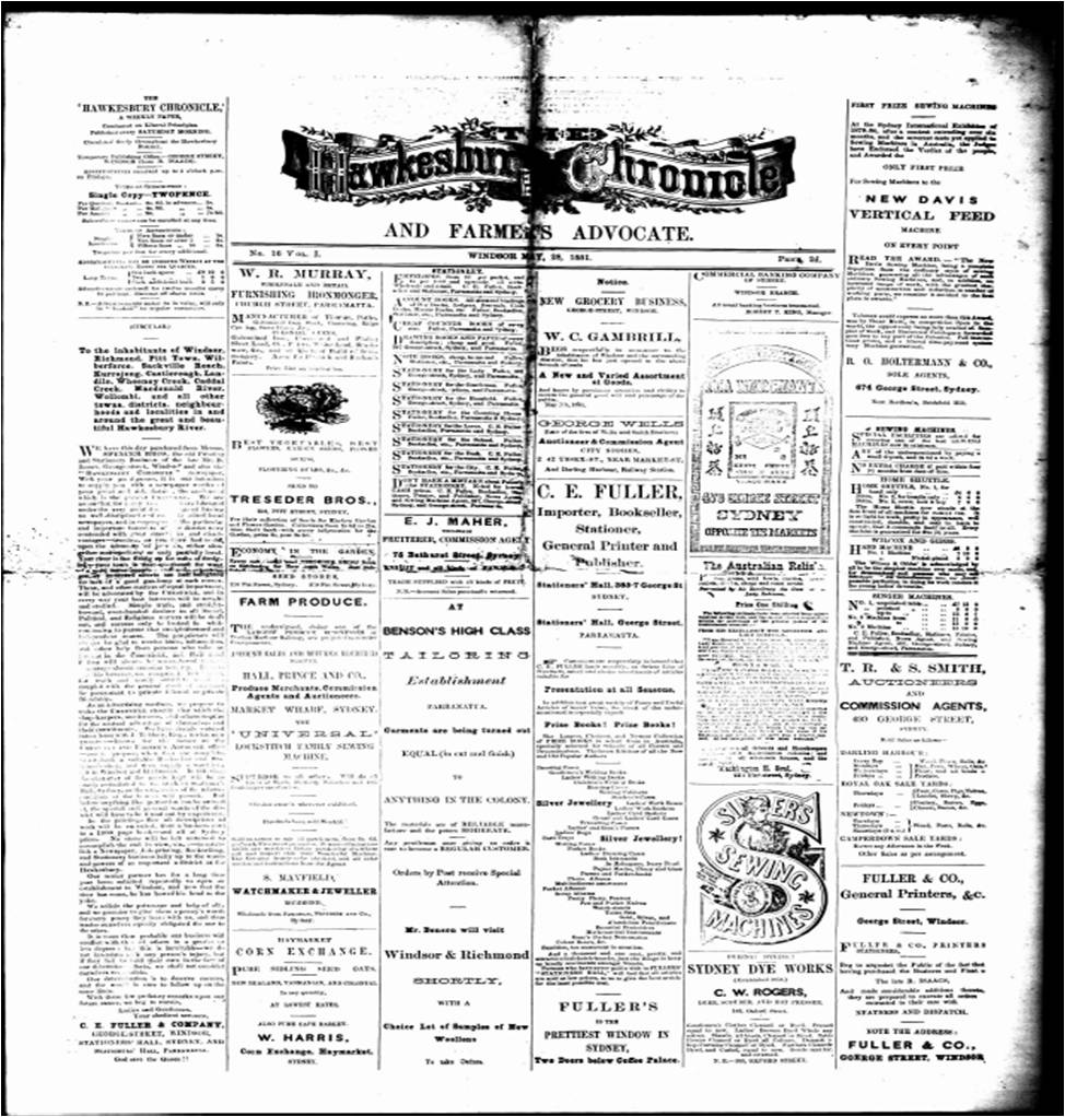 Coverpage of a historic newspaper from New South Wales, Australia.